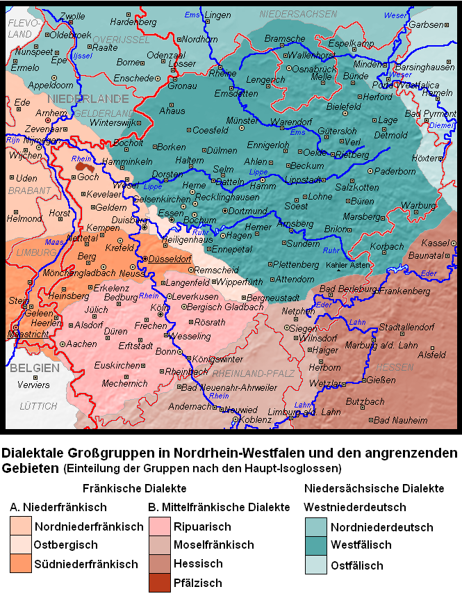 This is a map of the regions of dialect groups in North Rhine-Westphalia and adjacent areas Ripoarisch: Di Kaat heh zeisch de Rejoone vun de Houp-Dijaläk-Groppe en Noodrhing-Wäßfahle un drömeröm